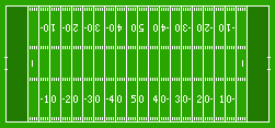 An American football field, approximately to scale.